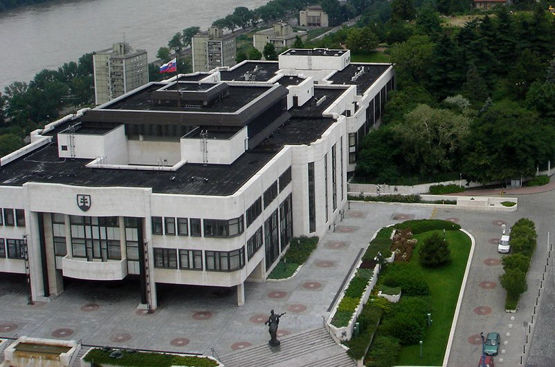 Slovak National Council building, from the Crown Tower of Bratislava Castle